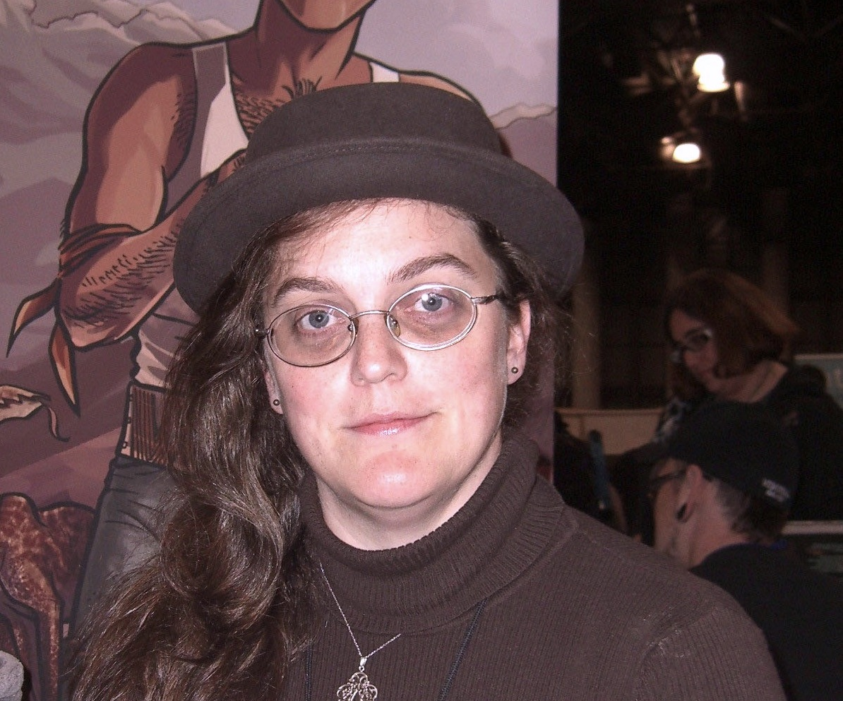 Comic book creator Carla Speed McNeil, at the New York Comic Convention in Manhattan, October 10, 2010. Photo by Luigi Novi. This photo may be used, modified and published for any purpose, only if a easily visible credit to the photographer is placed near the photo in each instance in which it is used. (See licensing information below.) Publication of this photo without this proper attribution constitute copyright infringement. For more information on my photos, you can contact me here.